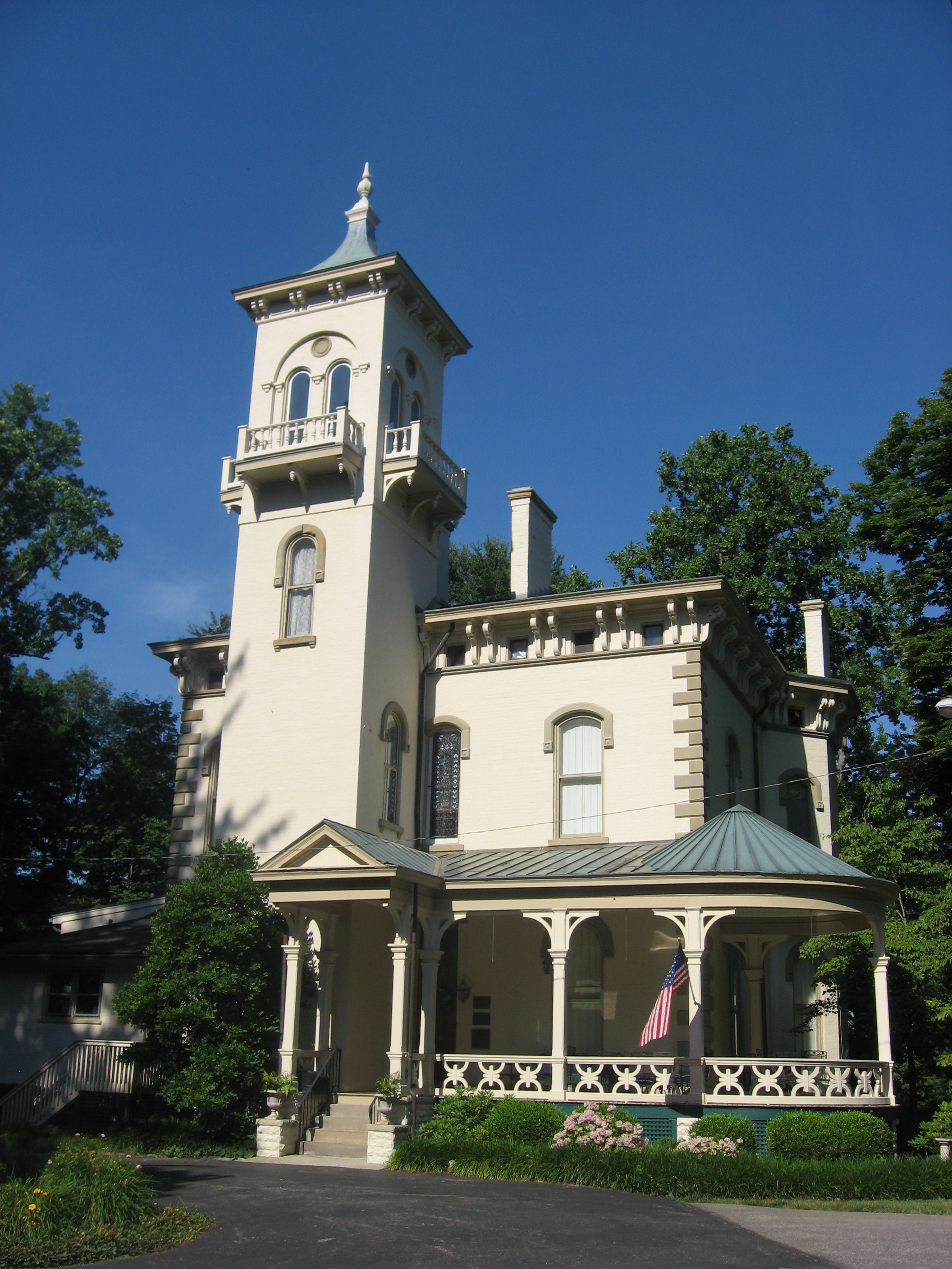 Front of the Promont Mansion, located at 906 Goshen Pike in Milford, Ohio, United States. Built in 1865 and since converted into a historic house museum, it is listed on the National Register of Historic Places.